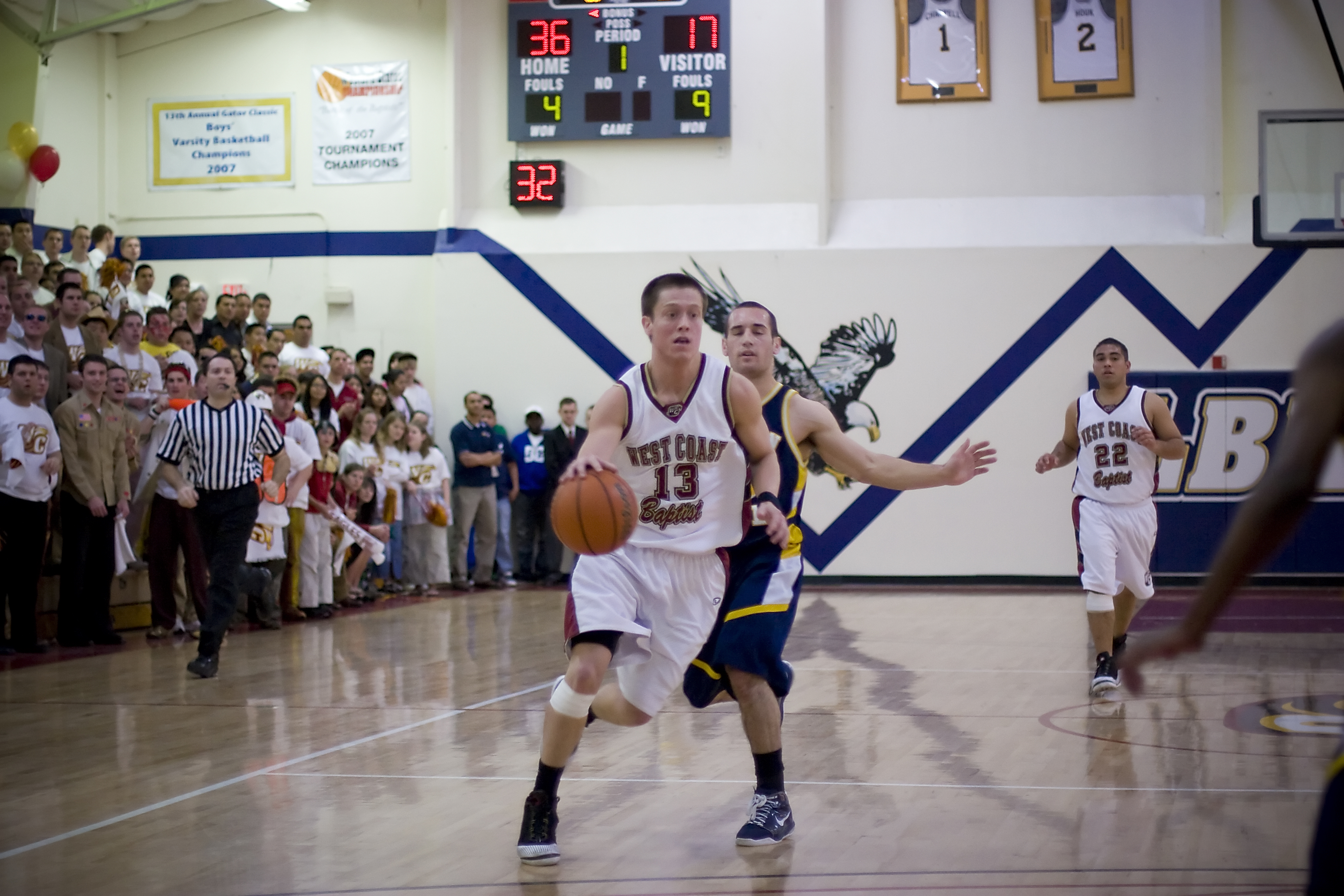 2009 Basketball game at West Coast Baptist College